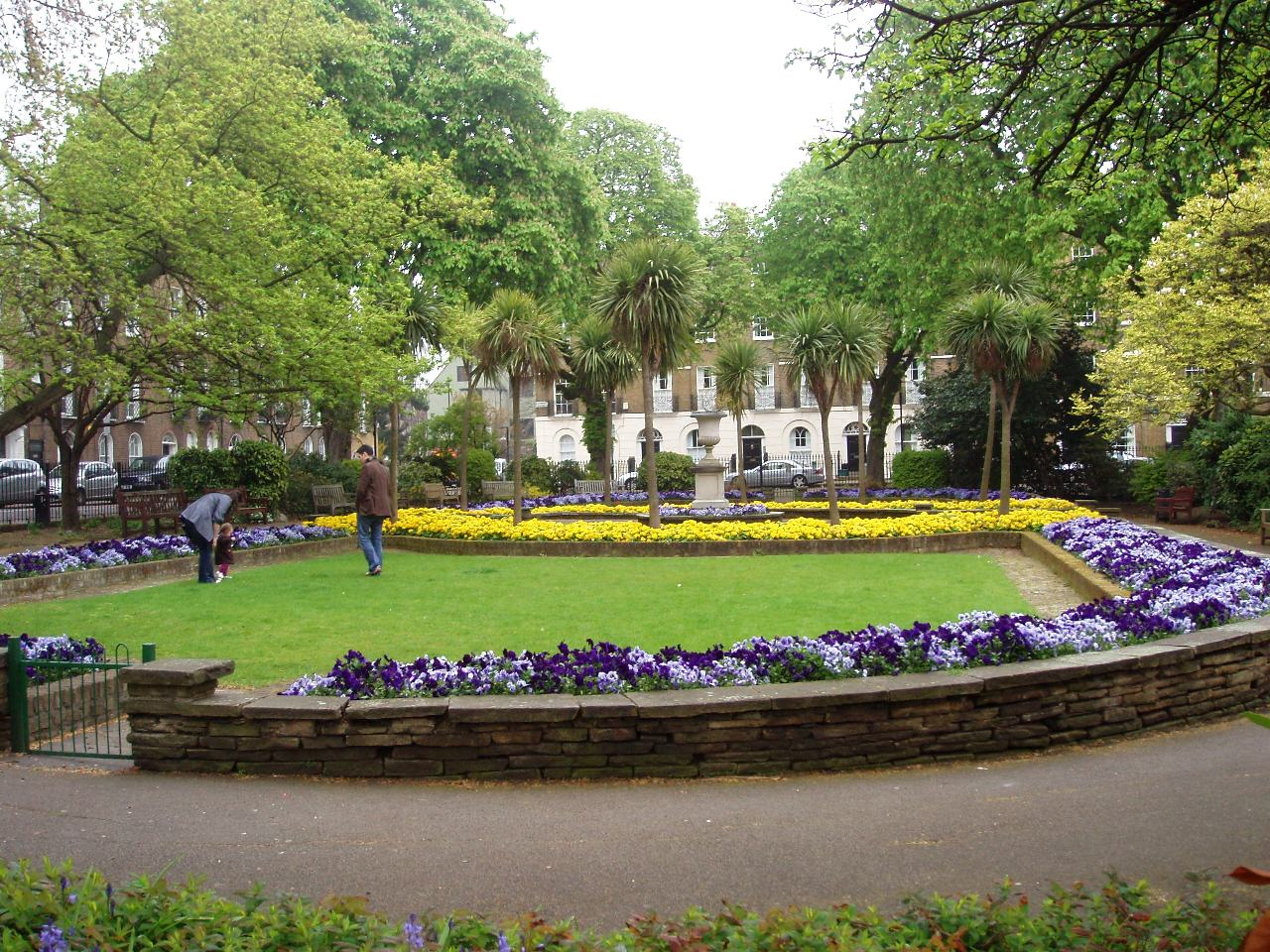 A pretty square, to be sure, in a pretty part of town, comprehensively hidden away from the DELIGHTS of Upper St and Essex Rd. Photo taken April 2008. Owner: London Borough of Islington.